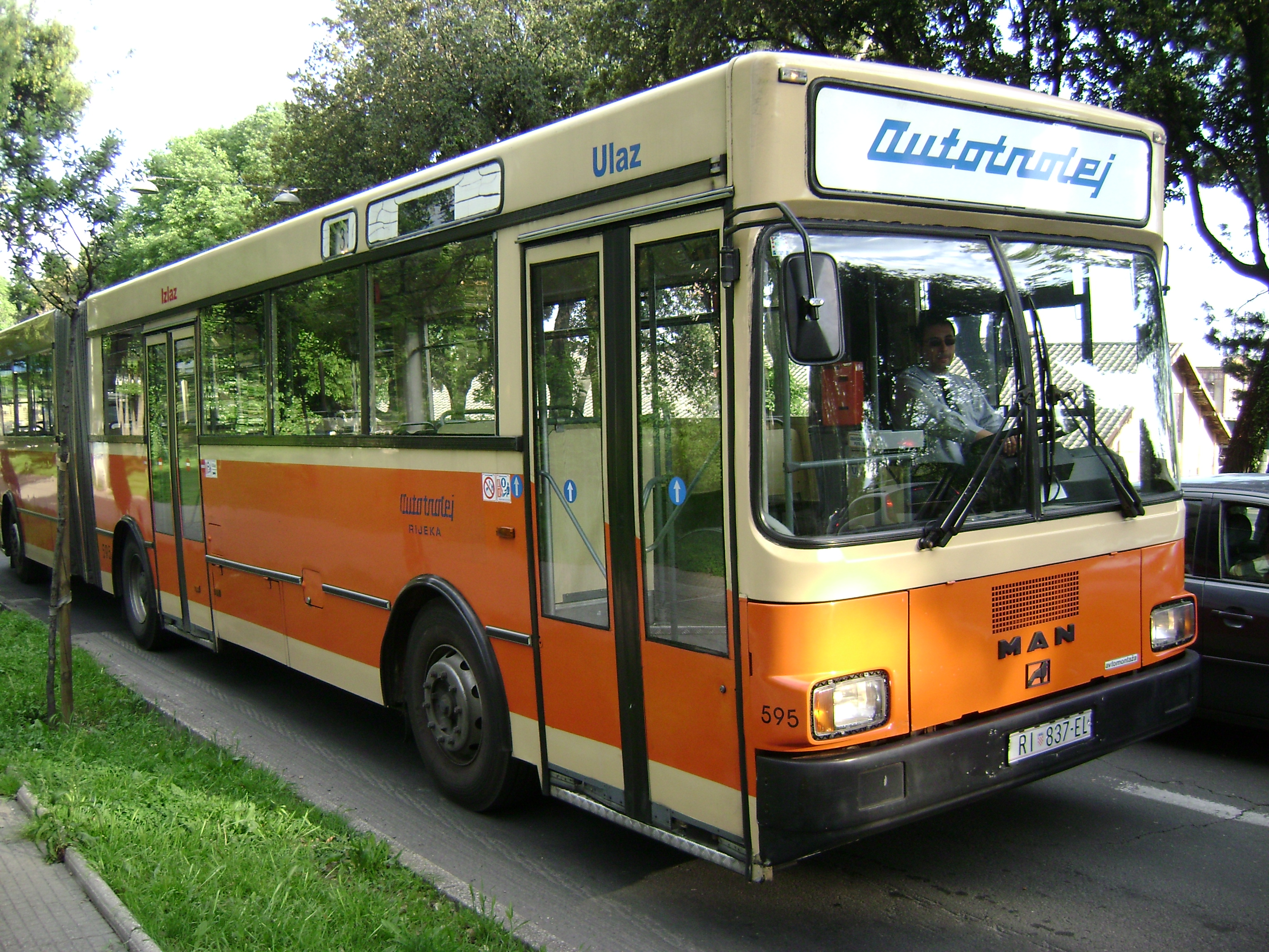 MAN SG240.2 Avtomontaža city bus (#595) in Rijeka, Croatia. Built Avtomontaža in 1995.